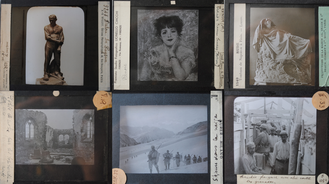 Photographic plates from French Institute's Library in Florence